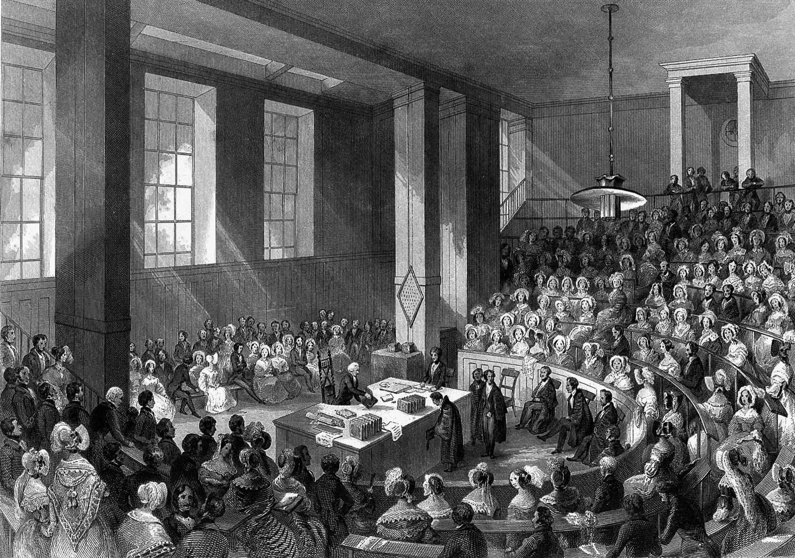 King's College, London: the interior of the theatre on prizegiving day. Engraving by H. Melville after T. H. Shepherd. Iconographic Collections Keywords: King's College, London; Thomas Hosmer Shepherd; Harden Sidney Melville; Robert Smirke